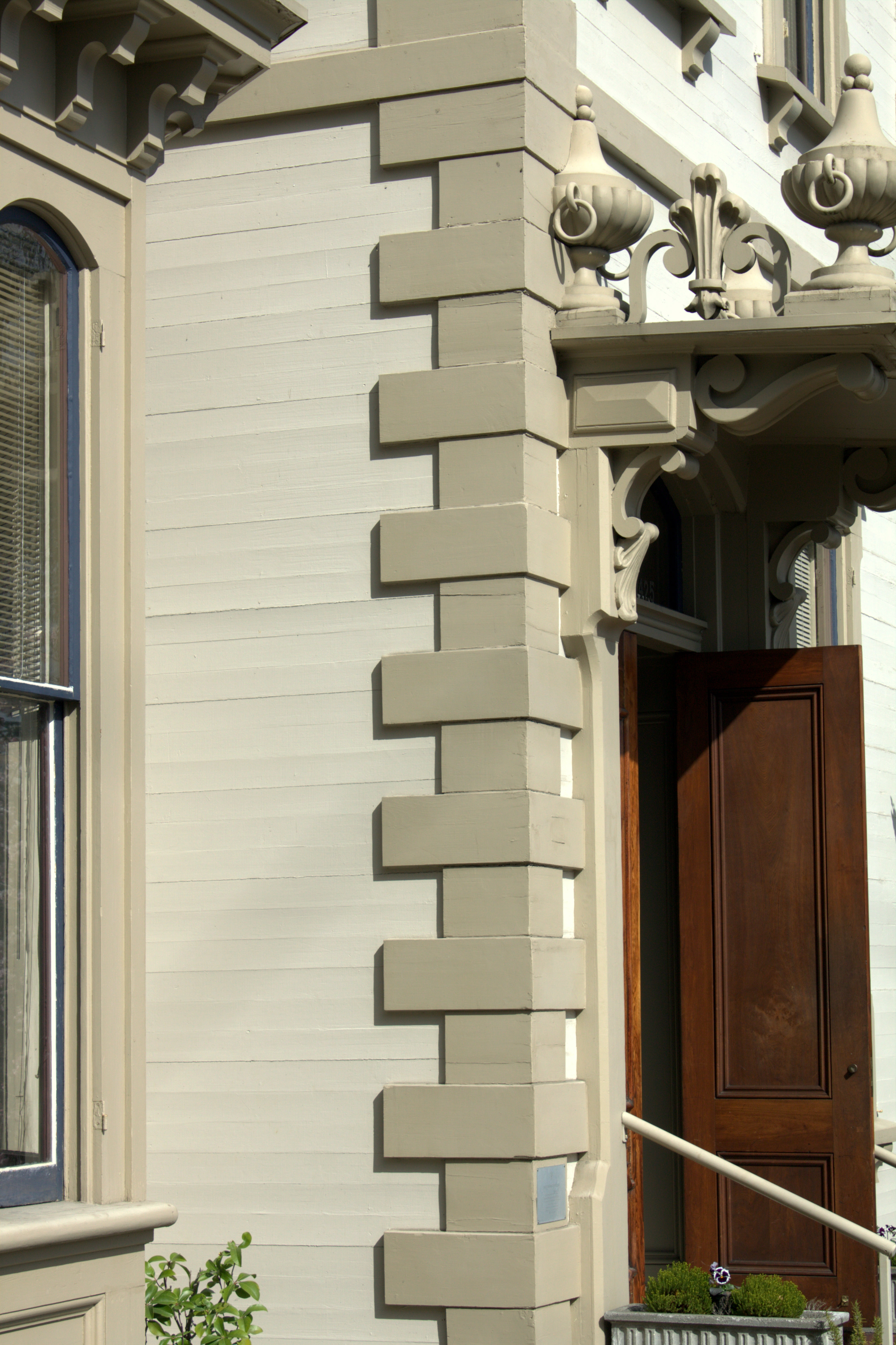 Jacob Kamm house, 2010-03-17. Jacob Kamm house, corner and entry detail, 2010-03-17.